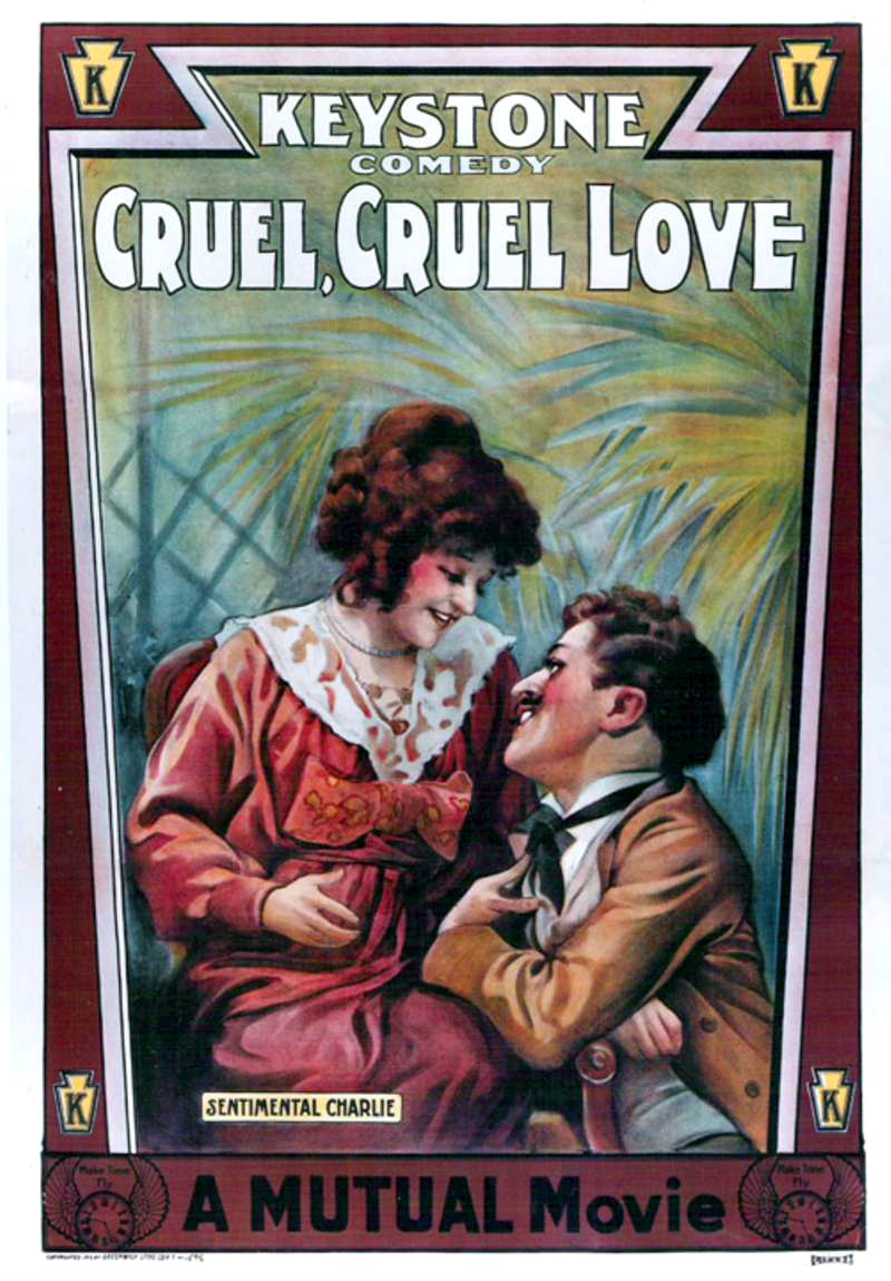 Description: Promotional poster for the Charlie Chaplin film, Cruel, Cruel Love (1914).